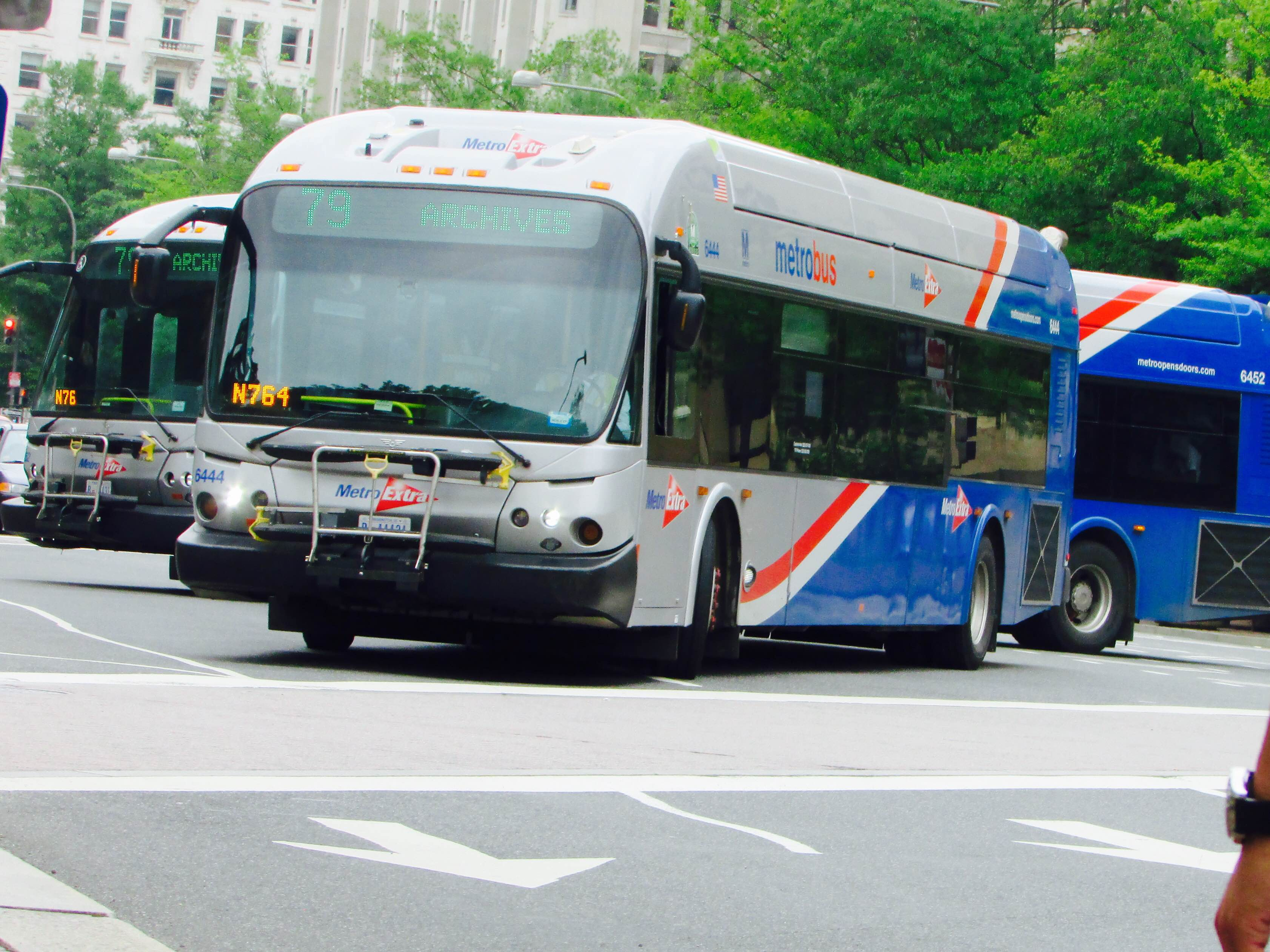 Archives